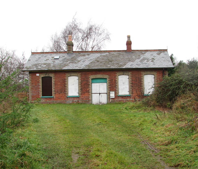 Once upon a time